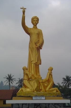 Statue of Blessed Andrew of Phú Yên.